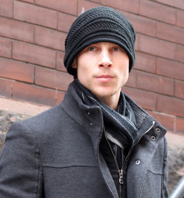 Taken in Toronto in 2010.